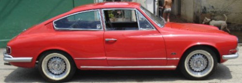 Brazilian Karmann-Ghia TC, side view